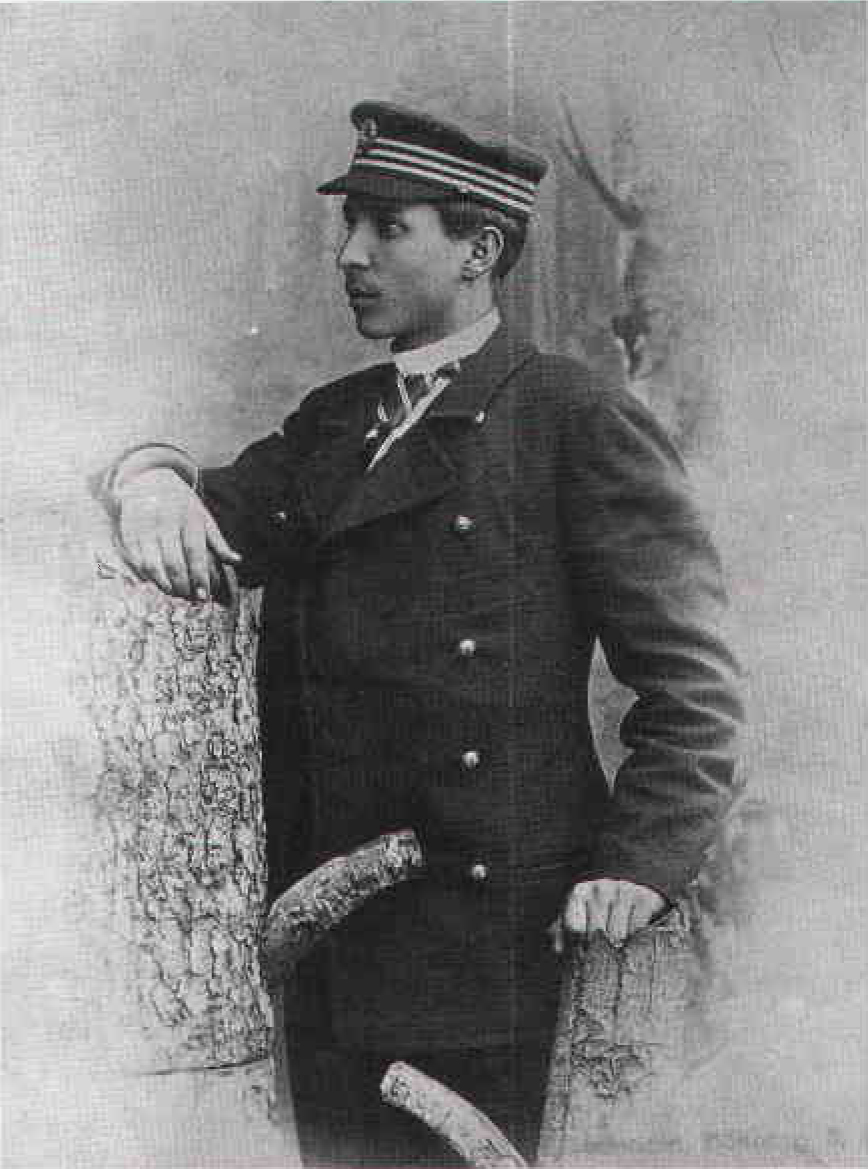 Victor Rolla, photo. On the back of the card, Rolla has written "Souvenir du Kapitaine Victor Rolla Stockholm 23 Mai 90". Digitized by Stockholm City Museum.